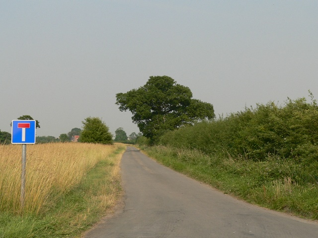 The Only Road To Gribthorpe, East Riding of Yorkshire, England.As it leaves the Wressle to Foggathorpe road